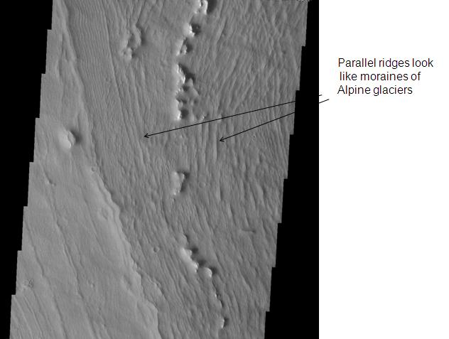 Alpine glacier in Phoenicis Lacus. Location is 6.9 degrees south latitude and 129.5 degrees west longitude. Picture taken with Mars Odyssey's THEMIS. Photo credit NASA/JPL/ASU.